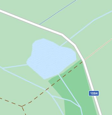 Pilský Pond (Jevany), schema.